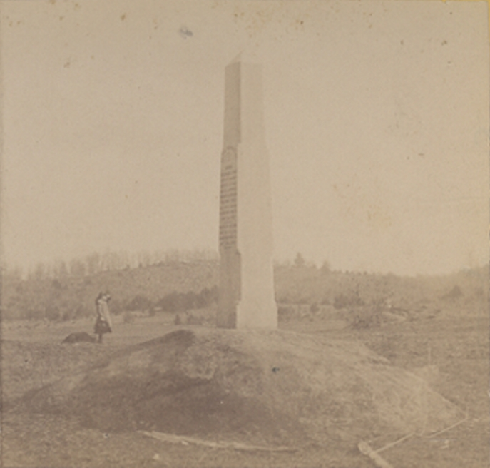 Brigadier-General Samuel K. Zook Monument, Wheatfield, Gettysburg Battlefield. Cropped from stereoscopic view.